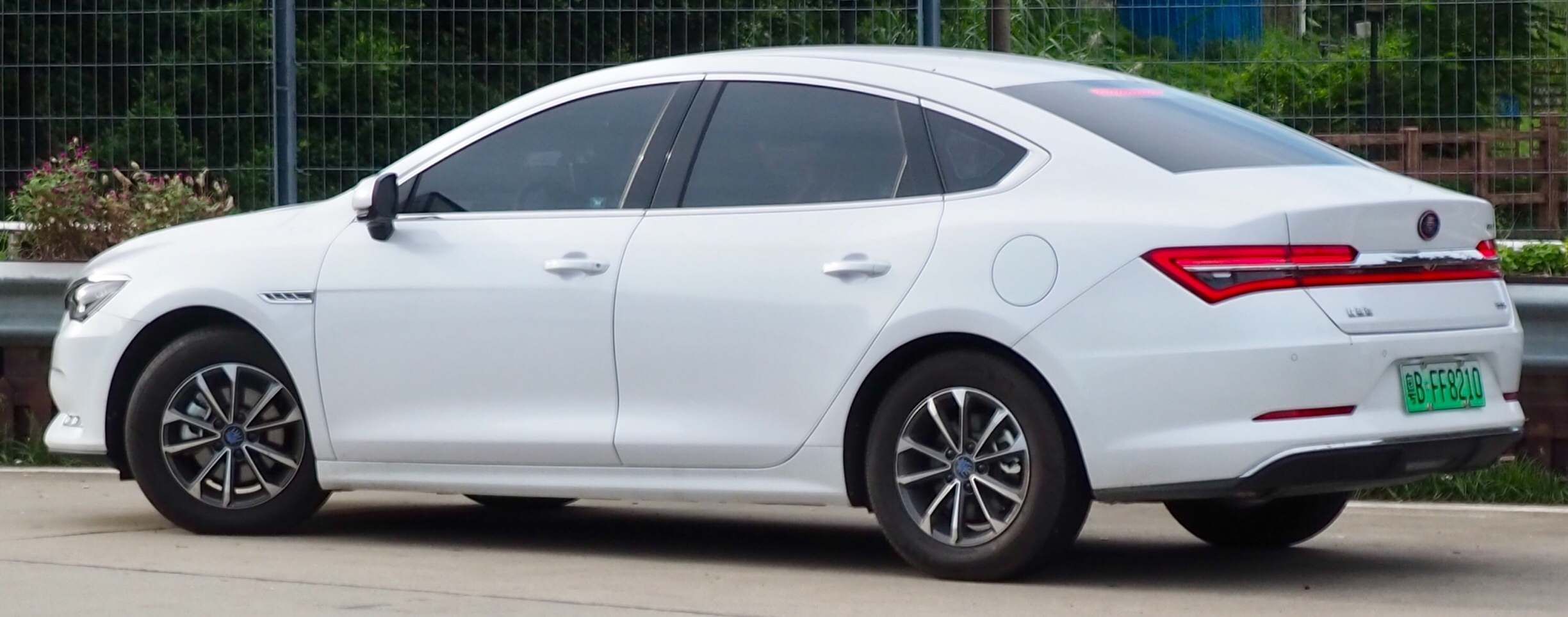 A 2019 BYD Qin taken in Shenzhen, Guangdong province, China. 中文（中国大陆）: 一辆2019年的比亚迪秦，摄于中国广东省深圳市。